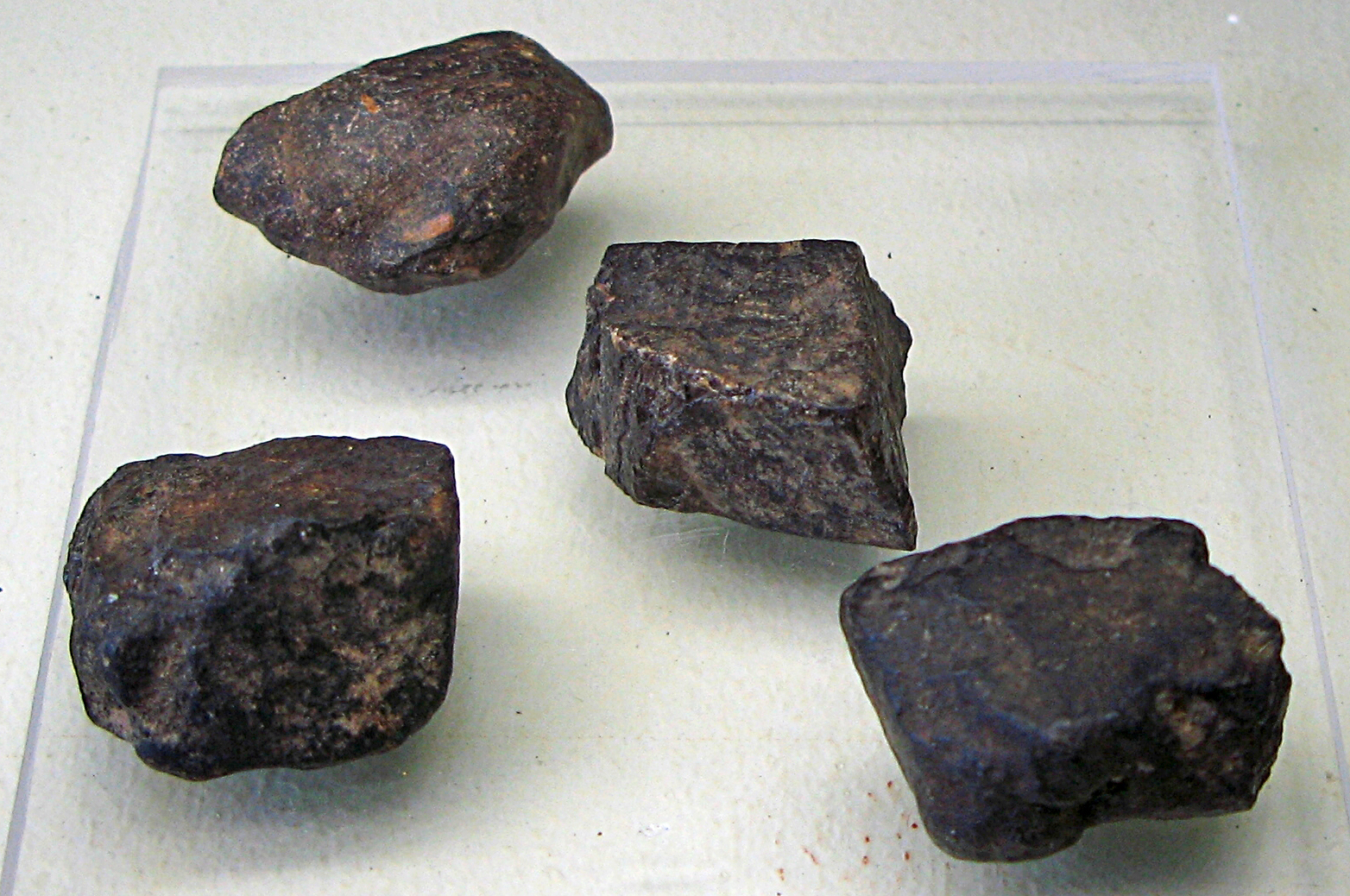 Bastnaesite - Locality: Kischtimsk, Ural - Exposed in the Mineralogical Museum, Bonn, Germany